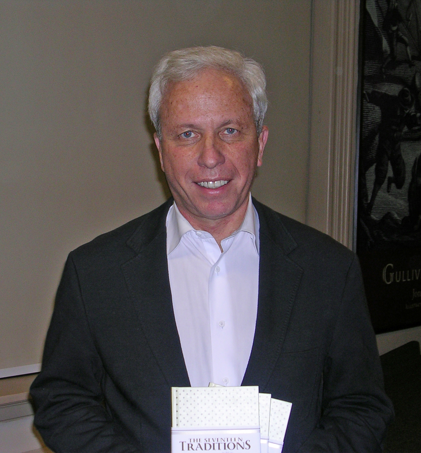 Mark Green by David Shankbone